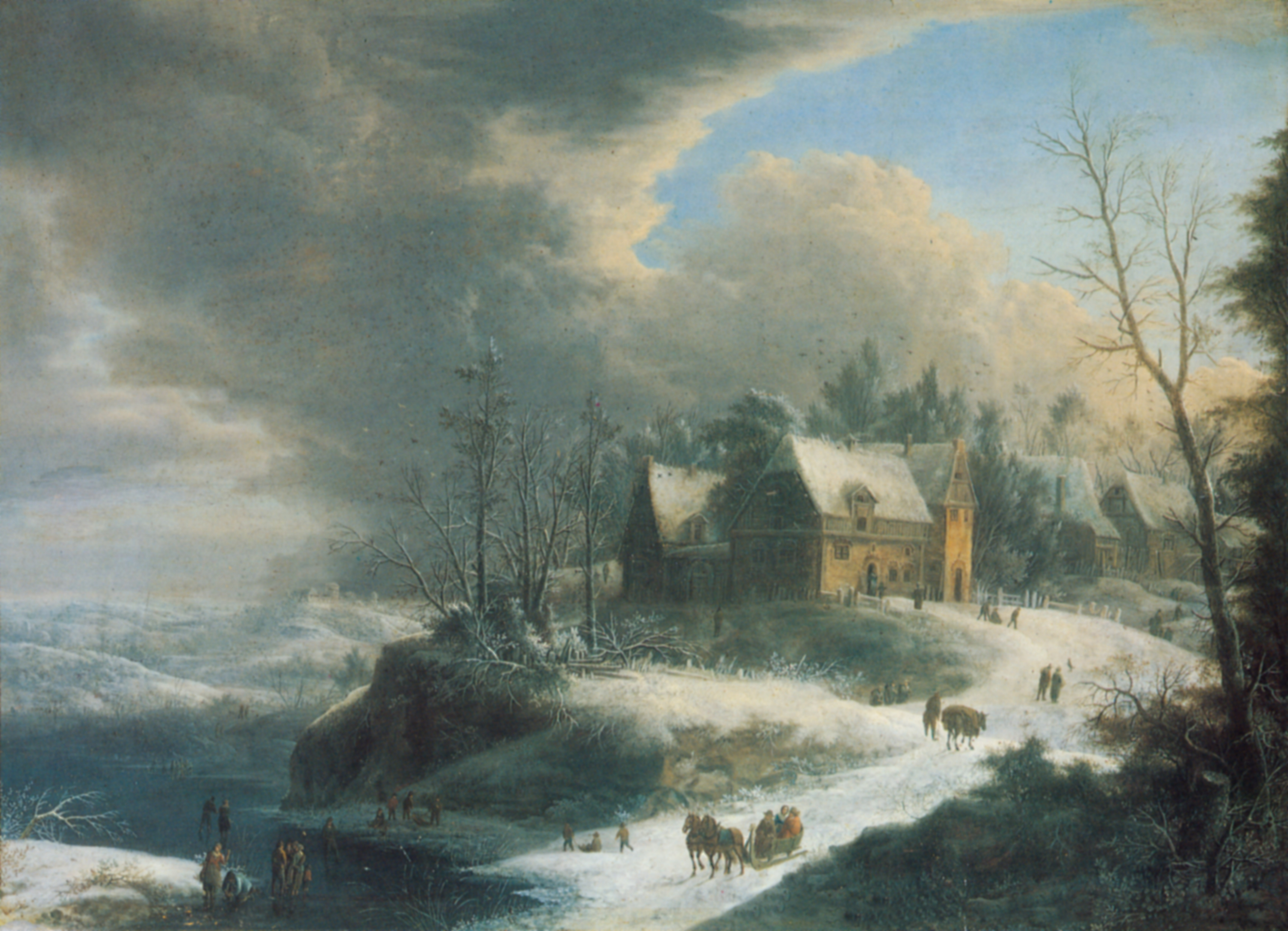 A Winter Landscape with a Hamlet above a frozen River, 40 x 54 cm, on panel